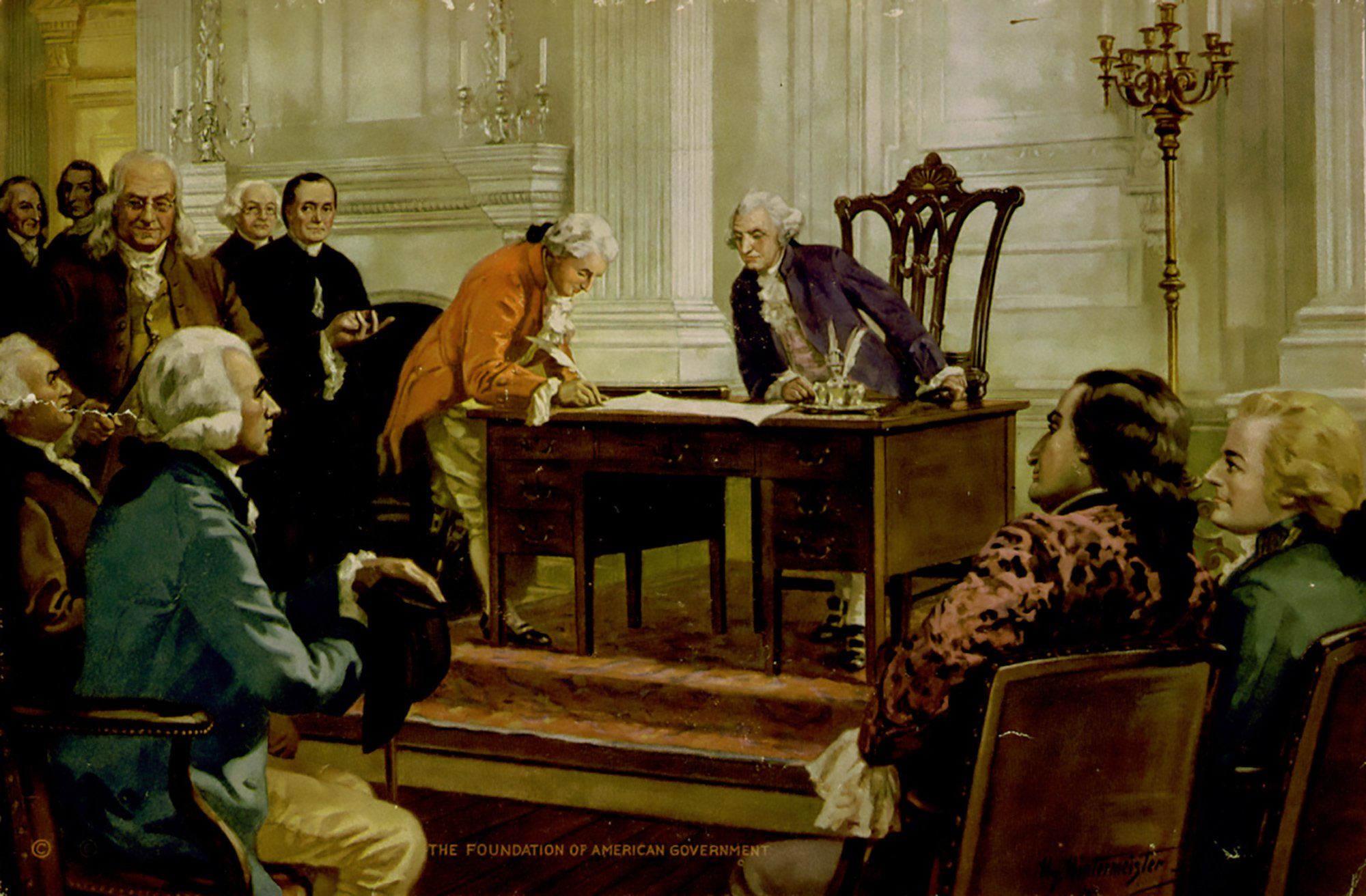 Foundation of the American Government by John Henry Hintermeister.[1] Published by the Osborne company, Newark, N.J. From the painting's copyright description: "Signing of the Constitution. At desk sits Washington watching Gouverneur Morris sign; behind Morris are Roger Sherman, Franklin, Robert Morris, Madison and others, and at right Hamilton and Randolf." Another copyright registration caption for the Osborne print: "Foundation of American government. Committee signing the Constitution, with Washington presiding and Gov. Morris signing papers."